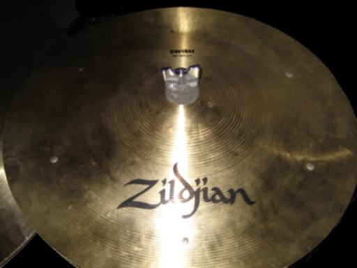 I took this picture of a Swish cymbal myself.